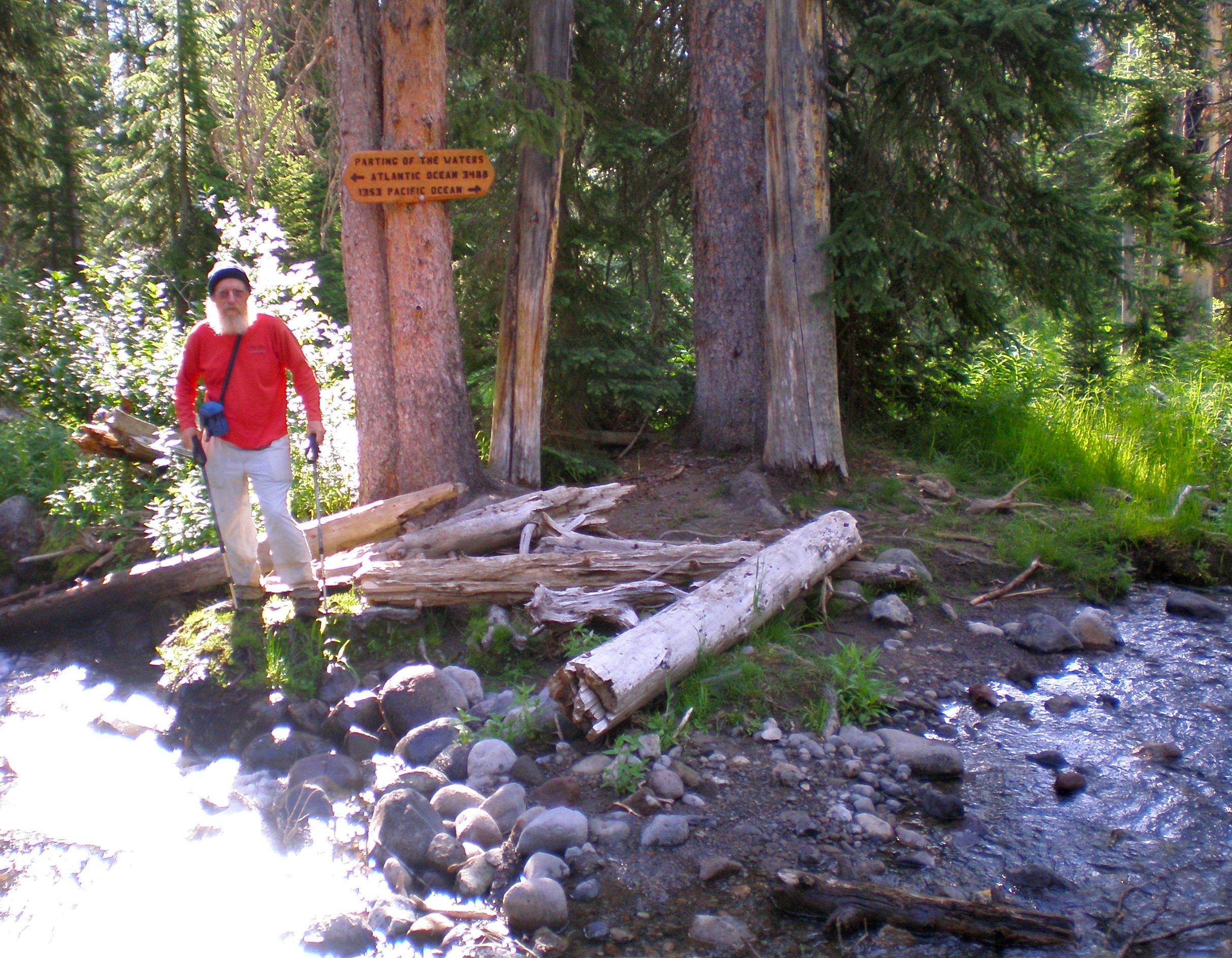 This creek spits in two directions on the Continental Divide